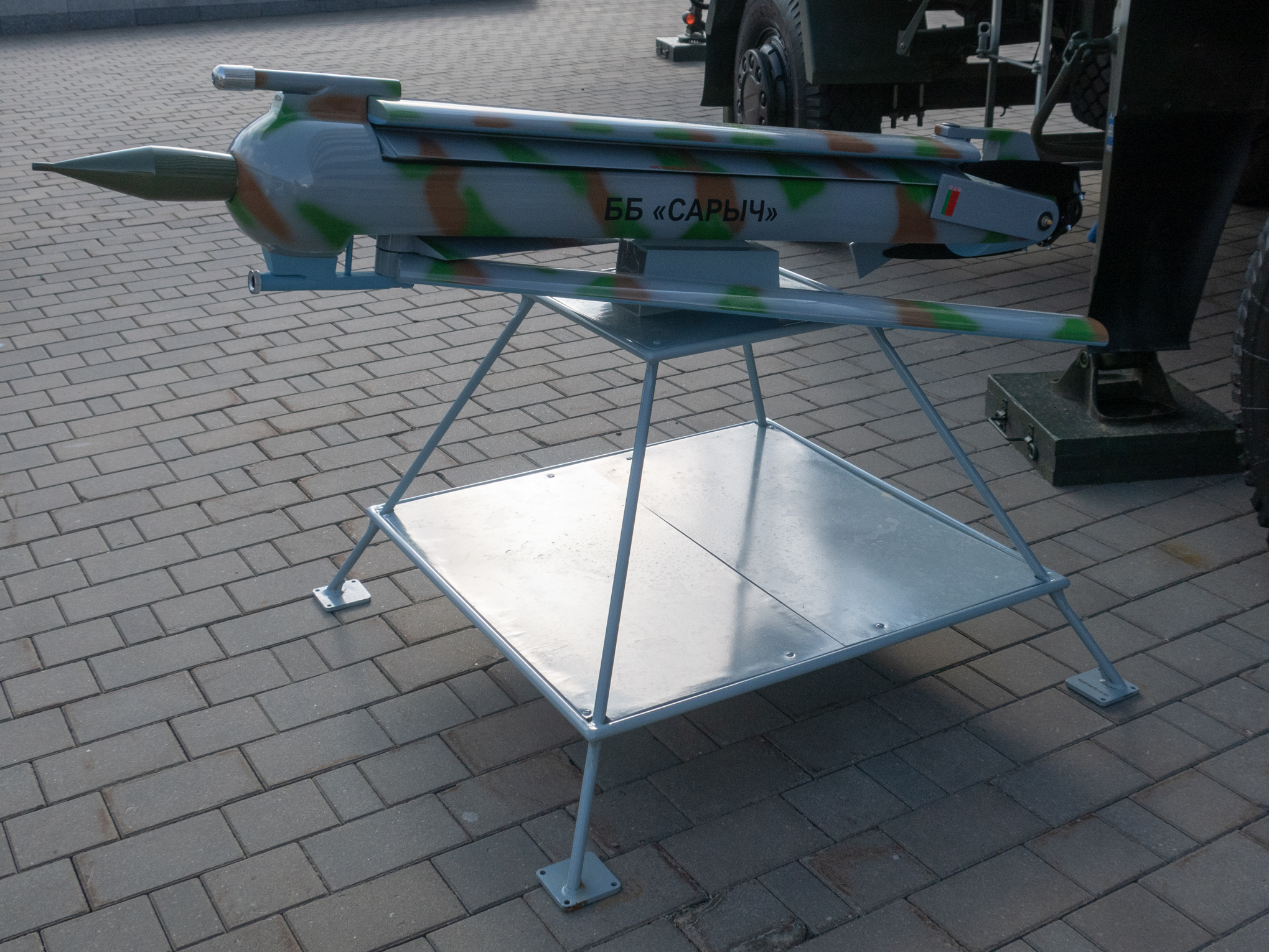 UAV BB Sarych with kamikaze drone by 558th air repairing factory at Milex-2019 arms and military machinery exposition (Minsk, Belarus)